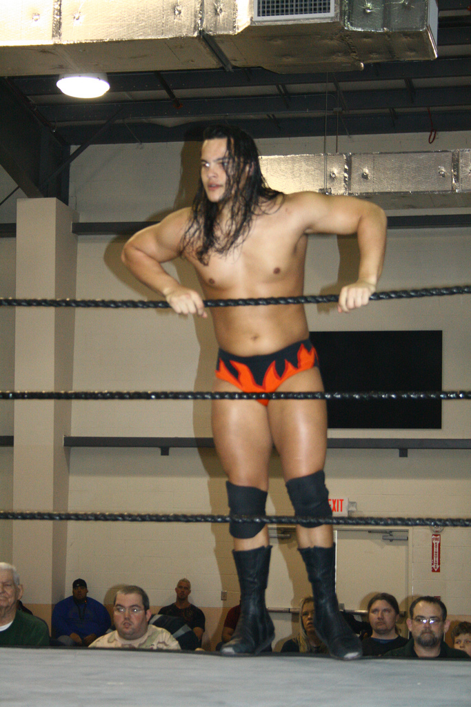 Taylor Rotunda aka Bo Rotundo in March 2010.